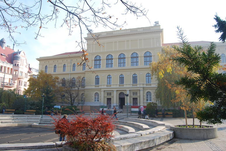 University of Szeged